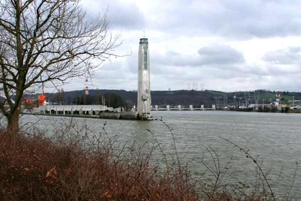 The architect of this monument is Joseph Moutschen (1895-1977) and the sculptor in Louis Dupont (1896-1967).